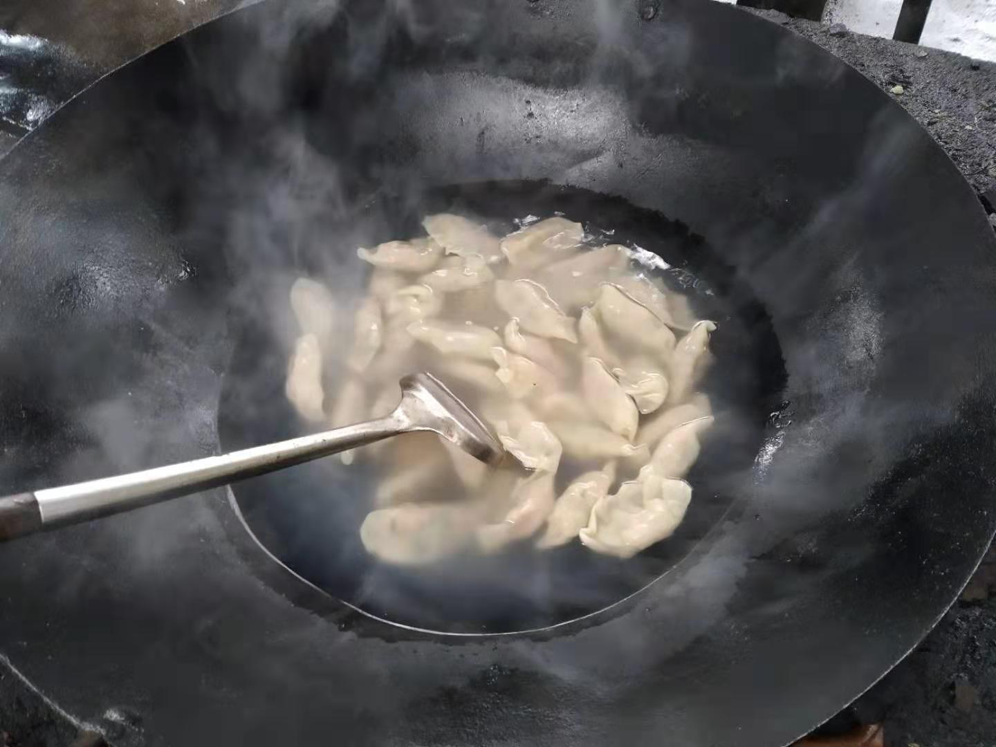 Cooking dumplings (饺子) with a wok on an outdoor stove in Shenzhen, China.